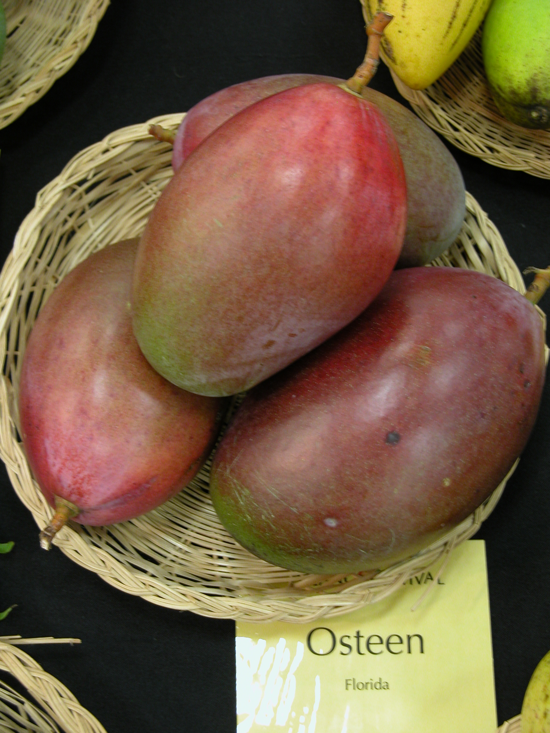 This is a photo of the display of Osteen mango at the 15th Annual International Mango Festival at the Fairchild Tropical Botanic Garden in Coral Gables, Florida.